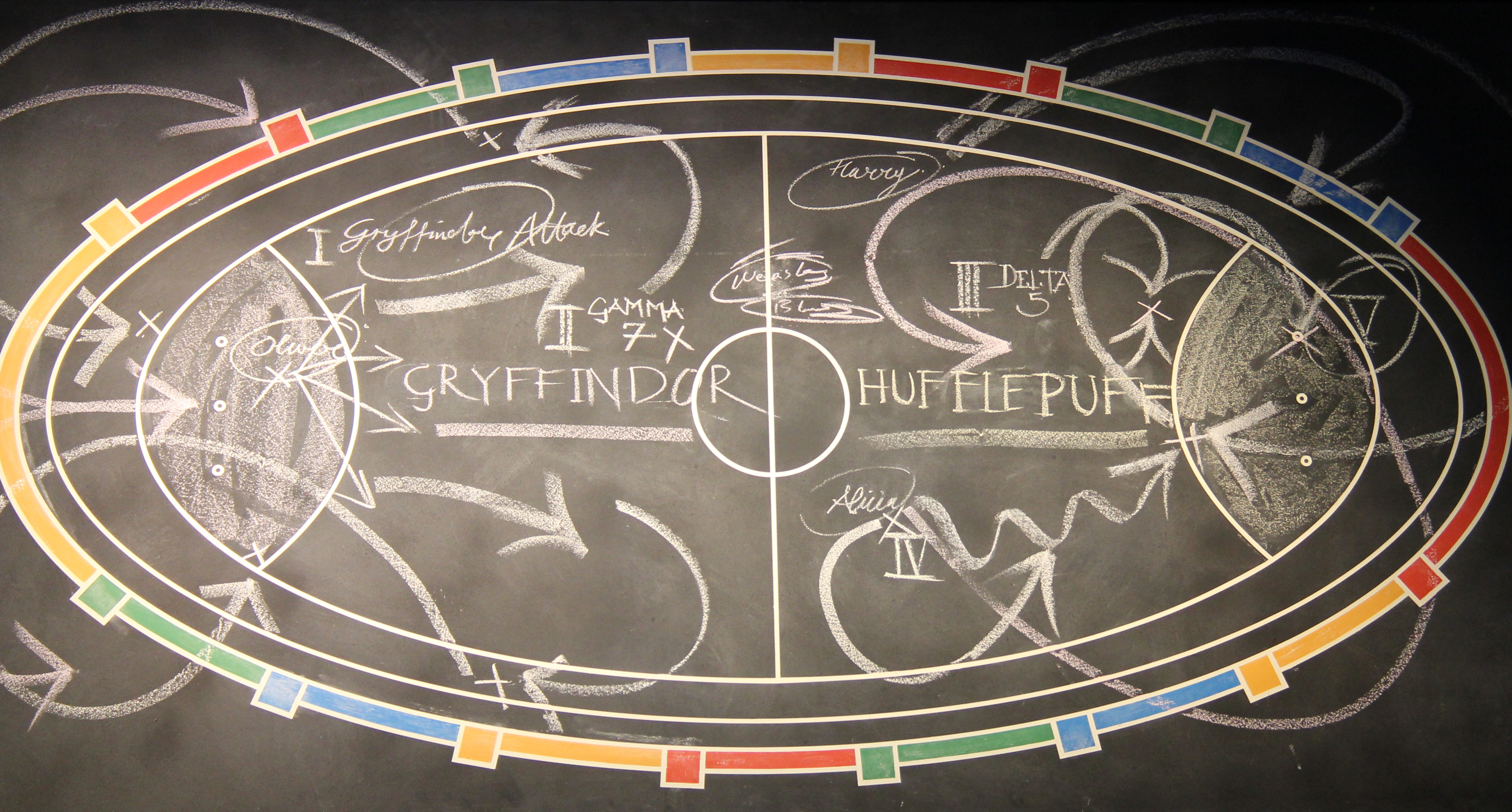 Quidditch Tactics